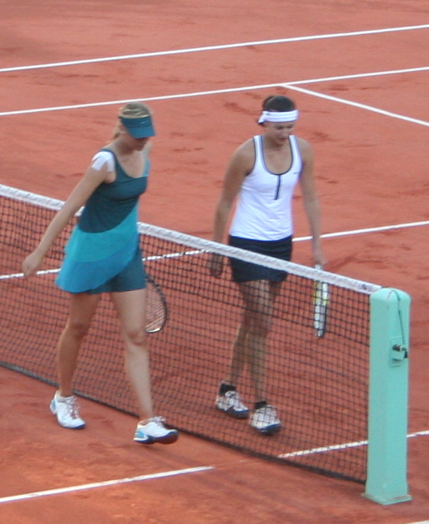 Maria Sharapova (left) and Yaroslava Shvedova at 2009 Roland Garros, Paris, France.